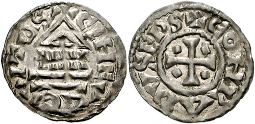 Switzerland, Bishops of Genève: Conrad. 1019-1031. AR Denier (1.24 g). +GENEVA CIVITAS, church facade +CONRADVS EPS, cross with diamonds in quarters. Corragione pl. XLVIII 15